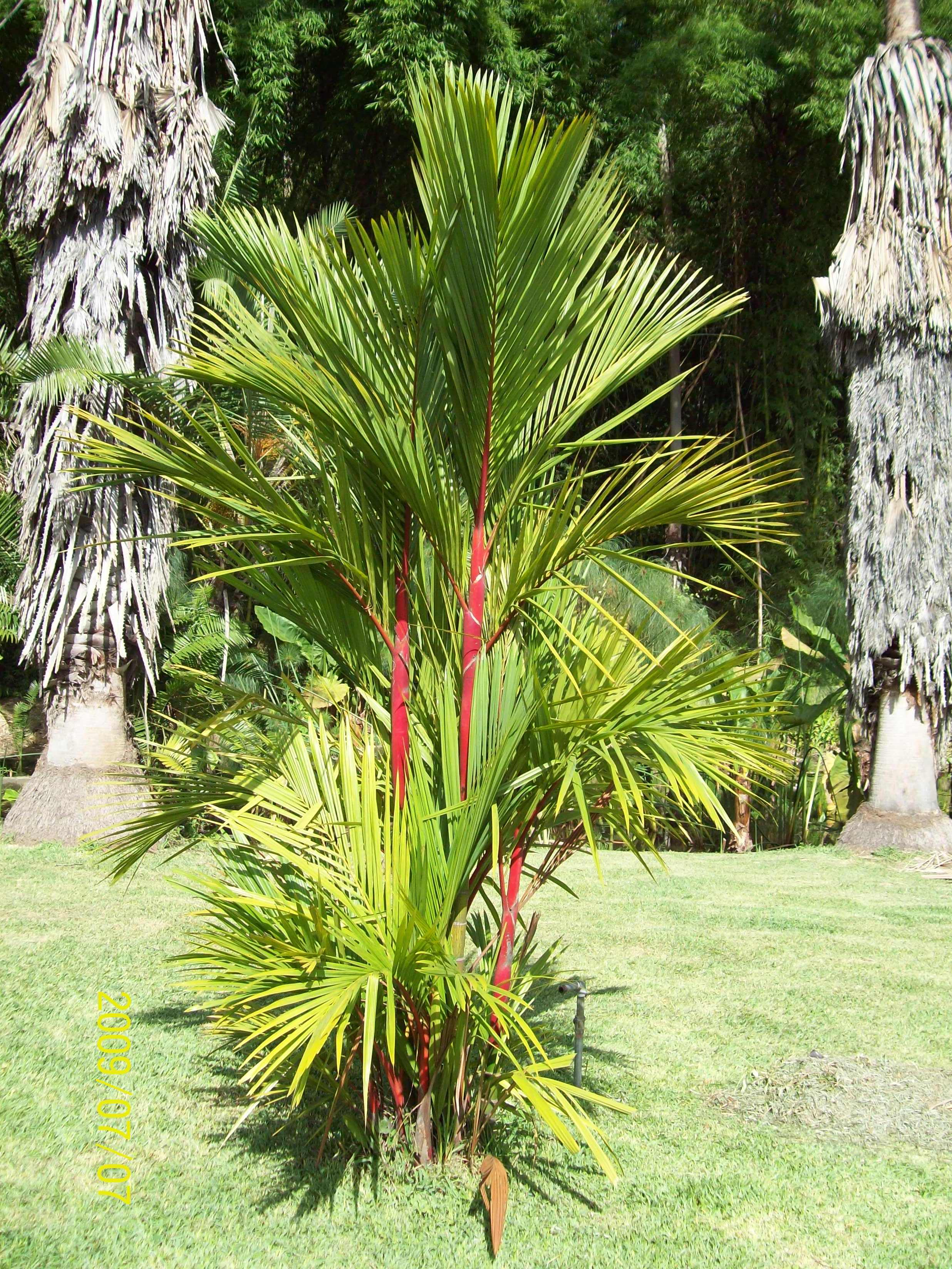 Cyrtostachys renda at Jardín Botánico de Caracas